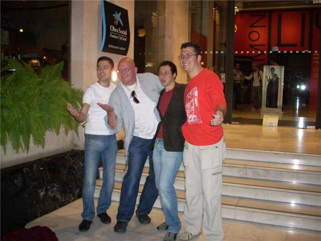 Ralf Zur from the german doo wop band The Crystalairs with the spanish doo wop band The Earth Angels.